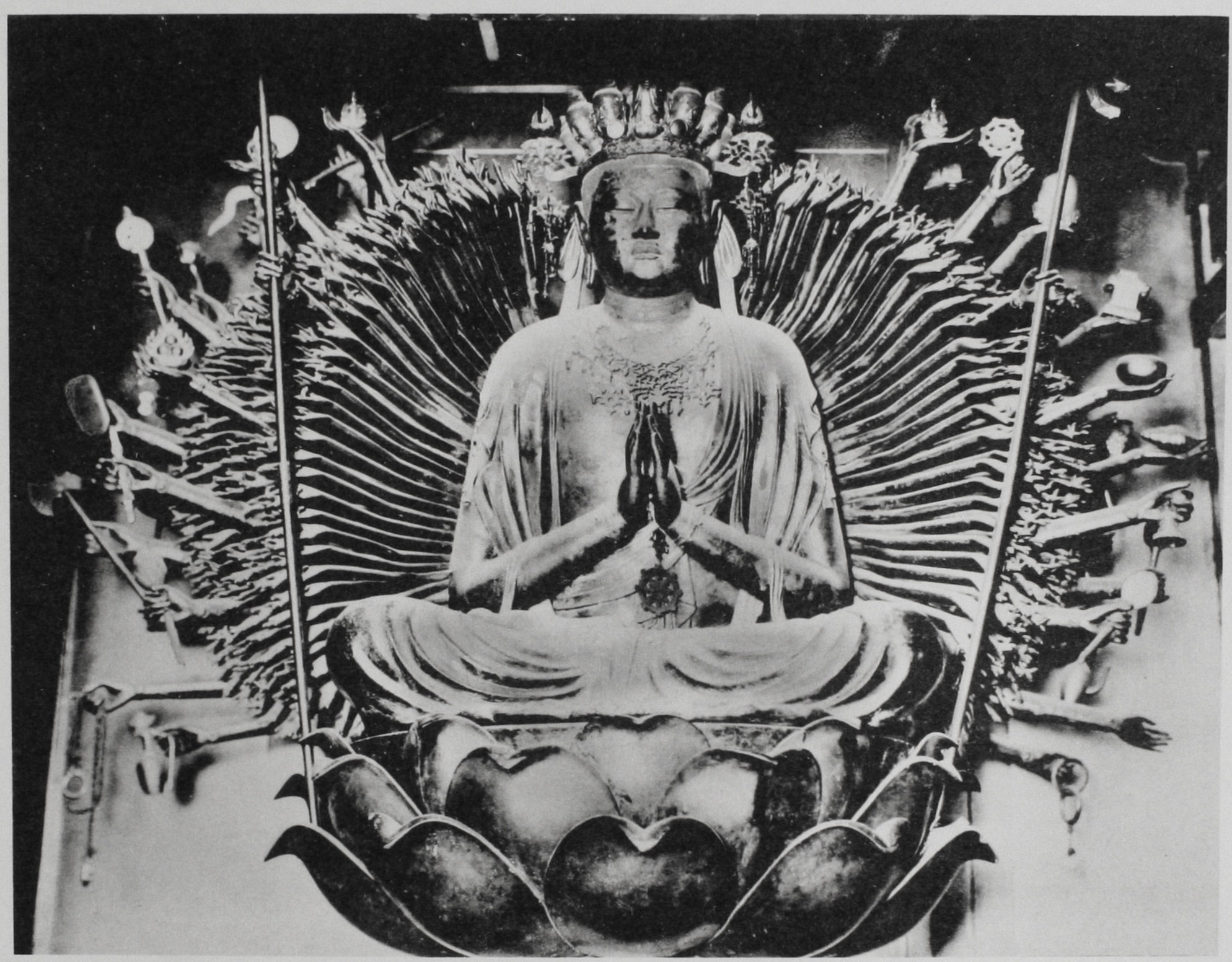 kanshitsu senjū kannon zazō) Seated Thousand-armed Kannon 131.3 cm (51.7 in) Hon-dō, Fujii-dera, Fujiidera, Osaka The statue has a total of 1041 arms: 2 main arms with the hand palms facing each other in front of the statue, 38 large and 1001 small arms extending from behind the body. Nara period, middle of 8th century Dry lacquer、 Gold leaf over lacquer